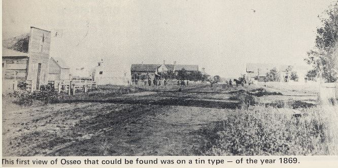 Tin type reproduction of scene of Osseo, Minnesota, 1869